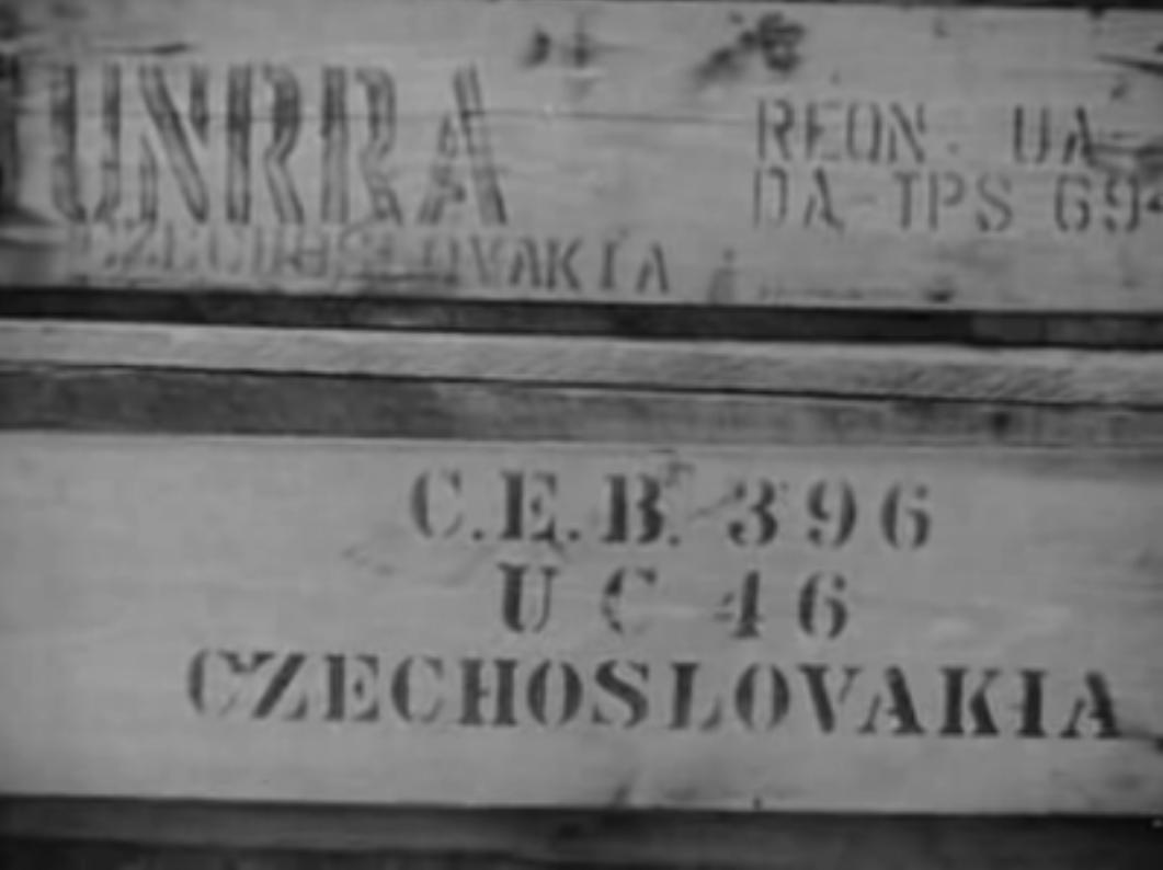 UNRRA box as a help to post WWII Czechoslovakia.